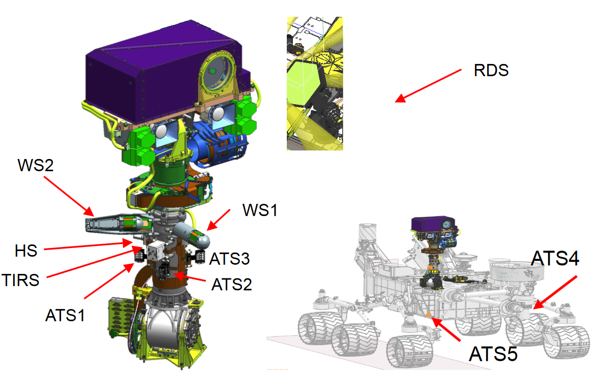 NASA Mars 2020 rover : MEDA-diagram